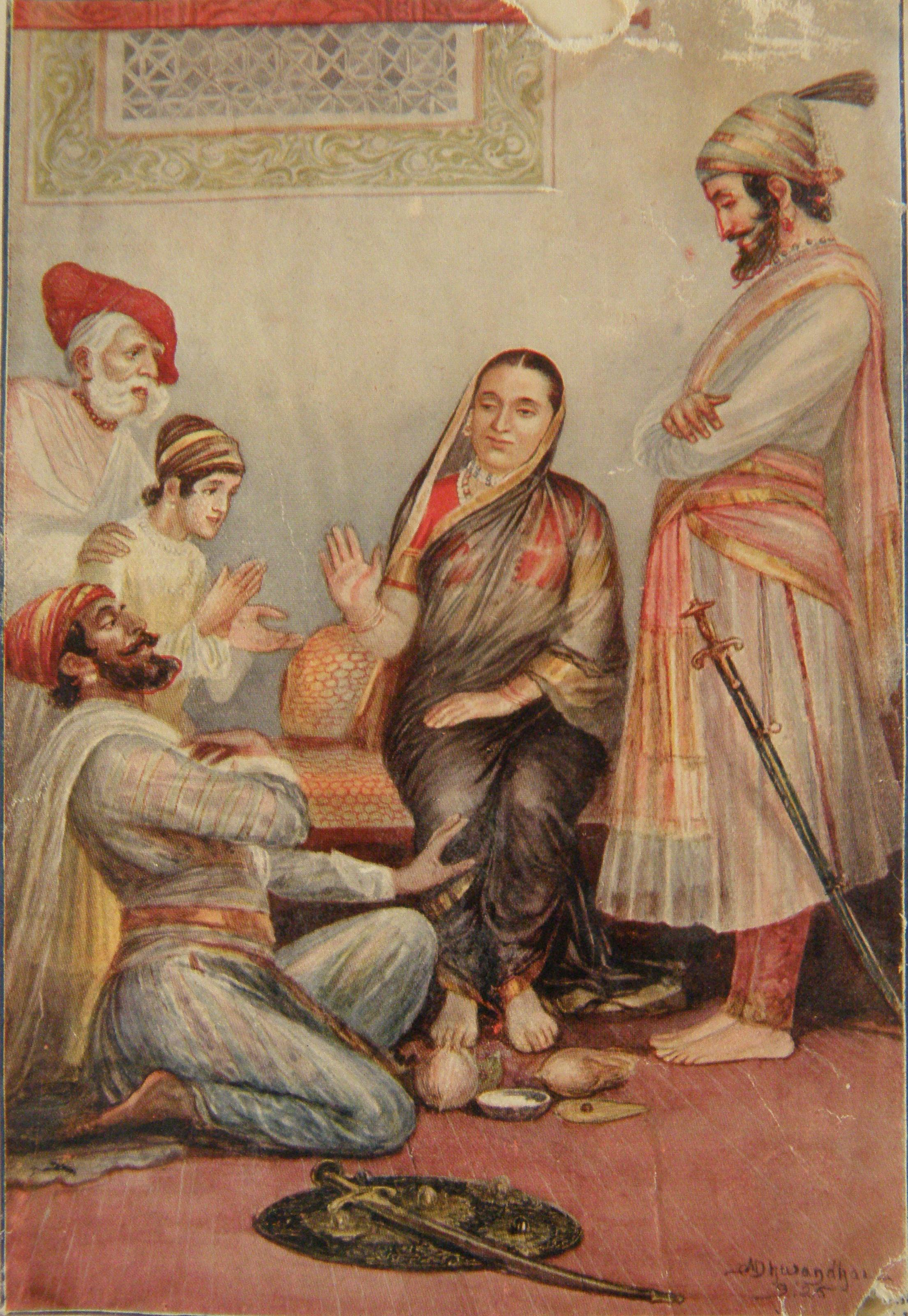 The ongoing exhibiton at the Museum 'M.V. Dhurandhar: The Artist as Chronicler' includes a series on Chhatrapati Shivaji Maharaj's life. These are illustrations from books commissioned by Balasaheb Pantapratinidi, Raja of Aundh. These works resulted from the numerous trips Dhurandhar made with Purshottam Mawji, who wrote a history of Shivaji Maharaj’s military and its role during warfare. Dhurandhar has skillfully captured the valour, aura and a humanitarian side of Chhatrapati Shivaji Maharaj. Swipe to see the following paintings: 1. The Coronation Durbar with over 100 characters depicted in attendance 2. Shivaji Maharaj in Aurangzeb's Durbar 3. Escape from Panhala 4. Tanaji's famous vow during Kondana campaign “Aadhi lagin kondhanyache mag mazya Raybache” 5. Shaistekhan Surprised 6. On the way to Purandar Join us at the Museum on 30th September 2018 at 5 pm for a traditional Powada performance which will bring these histories to life by folk theatre artists Ganesh Chandanshive, Shahir Yashwant & others! Museum entry ticket applicable